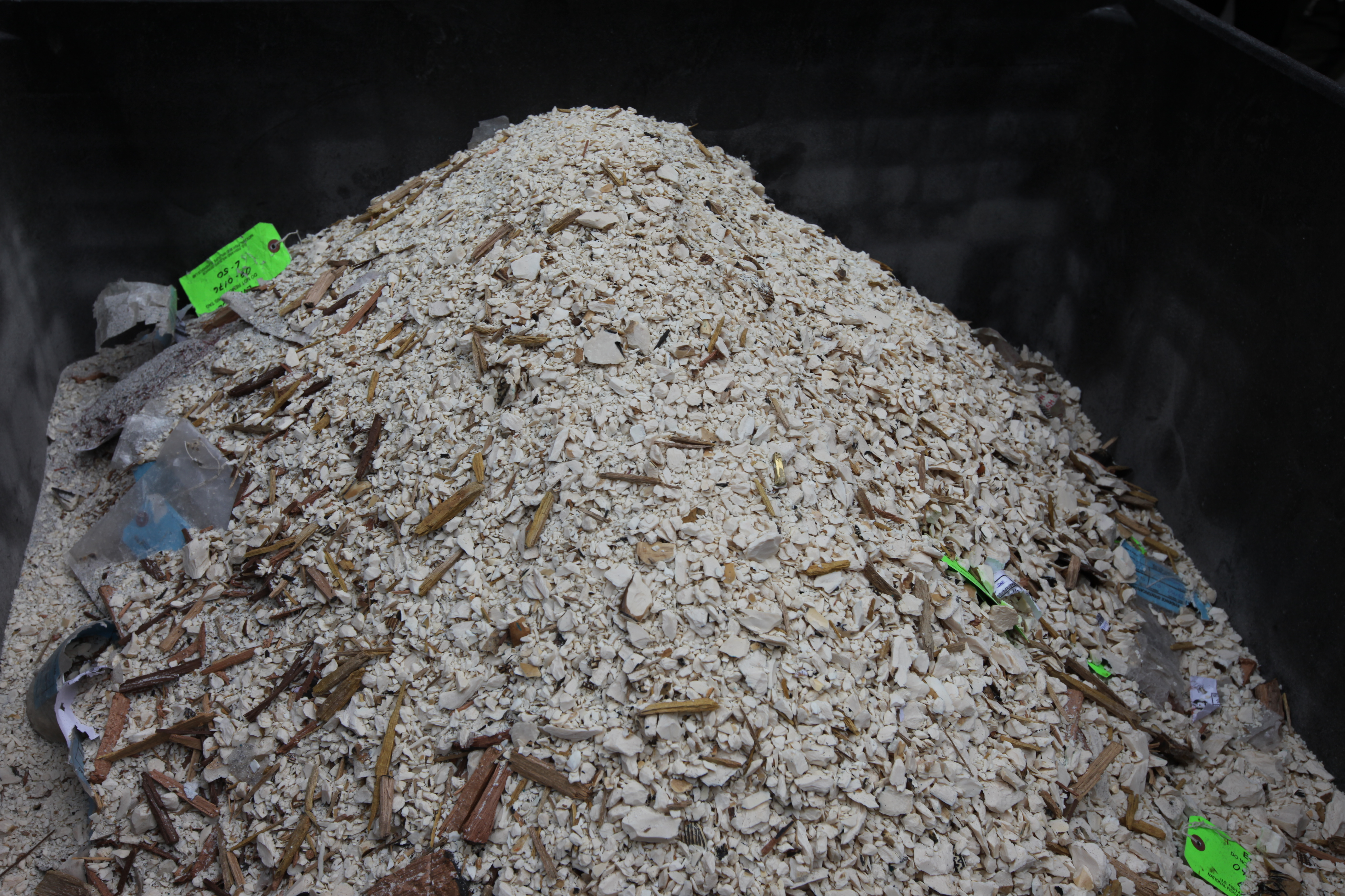 Photo Credit: Tylar Greene/FWS On the morning of June 19, 2015, in Times Square, New York City, the U.S. Fish and Wildlife Service, with wildlife and conservation partners, hosted its second ivory crush event. One ton of ivory we seized during an undercover operation, plus other ivory from the New York State Department of Environmental Conservation and the Association of Zoos and Aquariums was crushed.